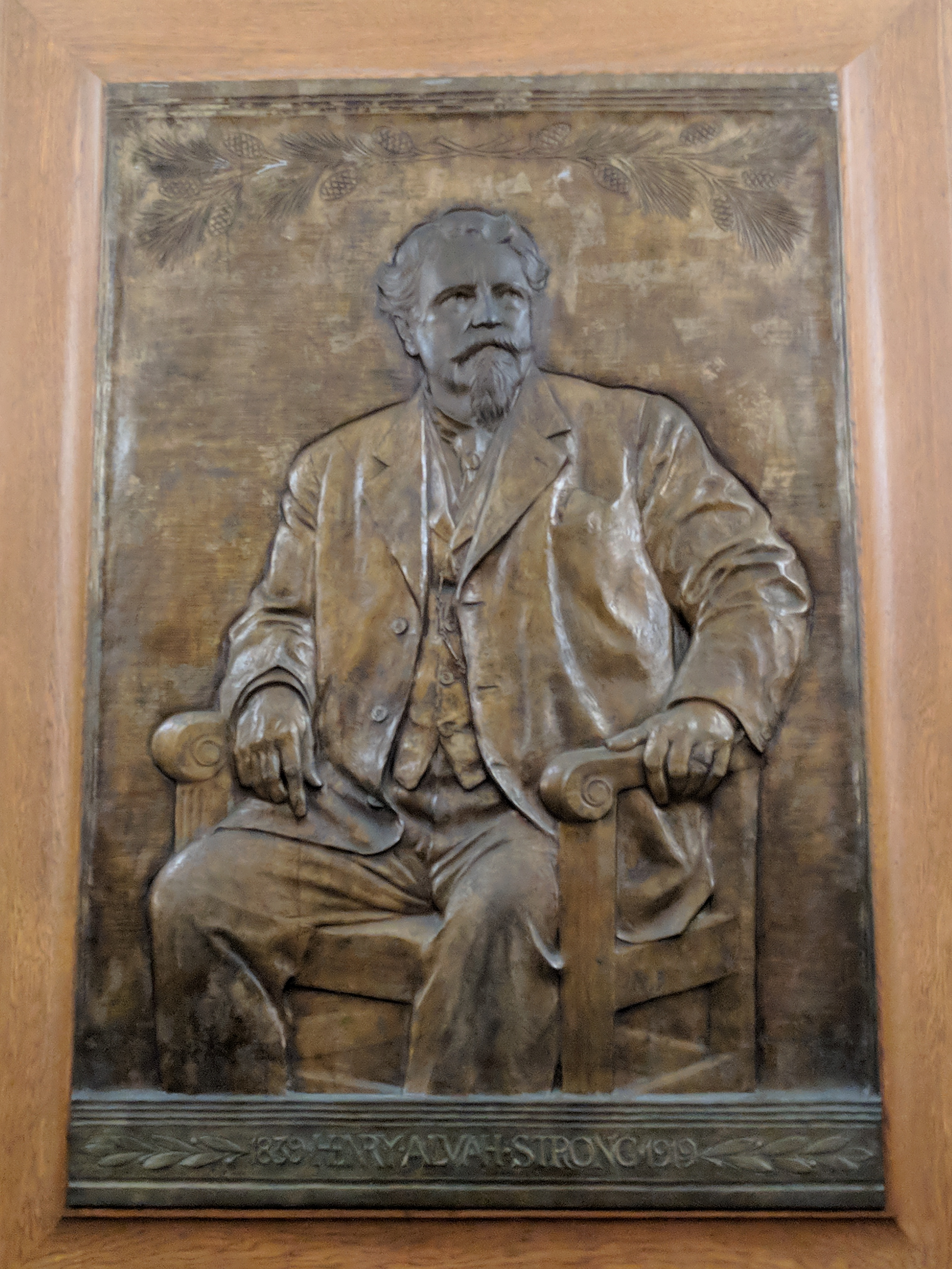 Bas-relief of Henry A. Strong in Strong Auditorium during Meliora Weekend 2018